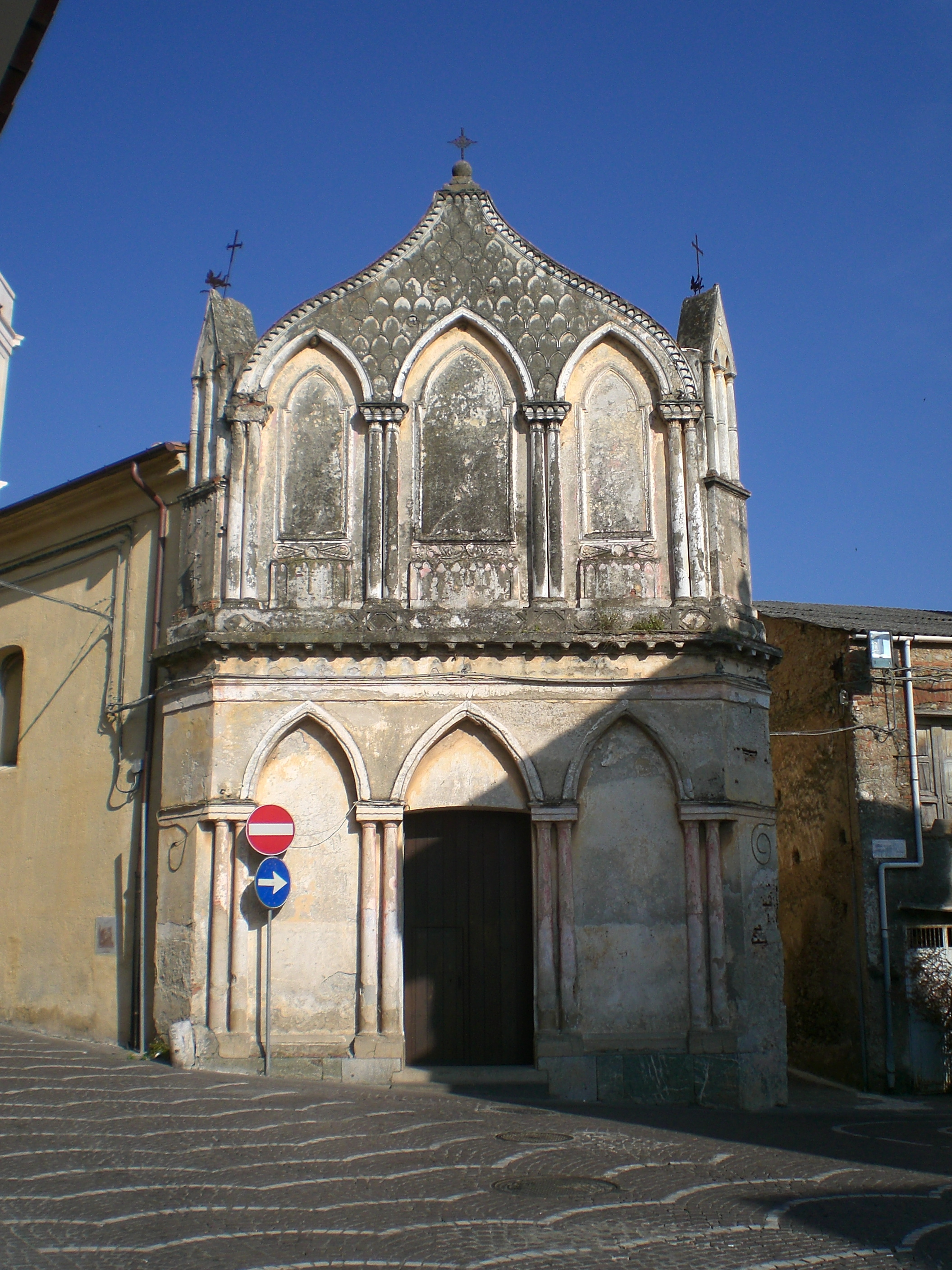 Frontal view of Chiesa dell'Annunziata in Lamezia Terme (Calabria, Italy)